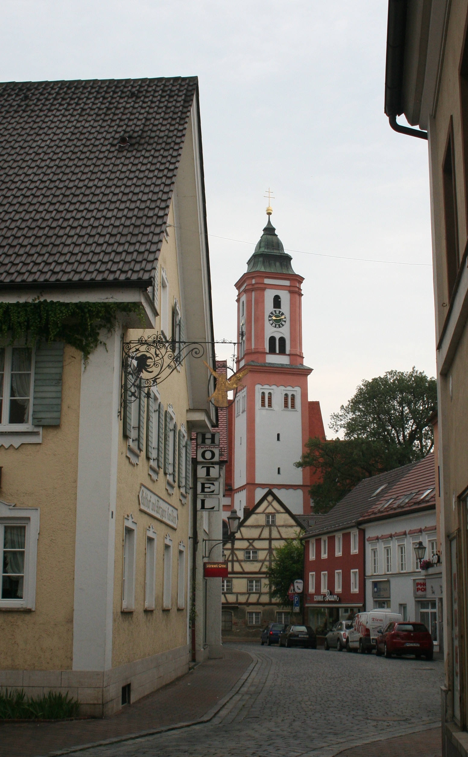 churchstreet in Krumbach (Schwaben)